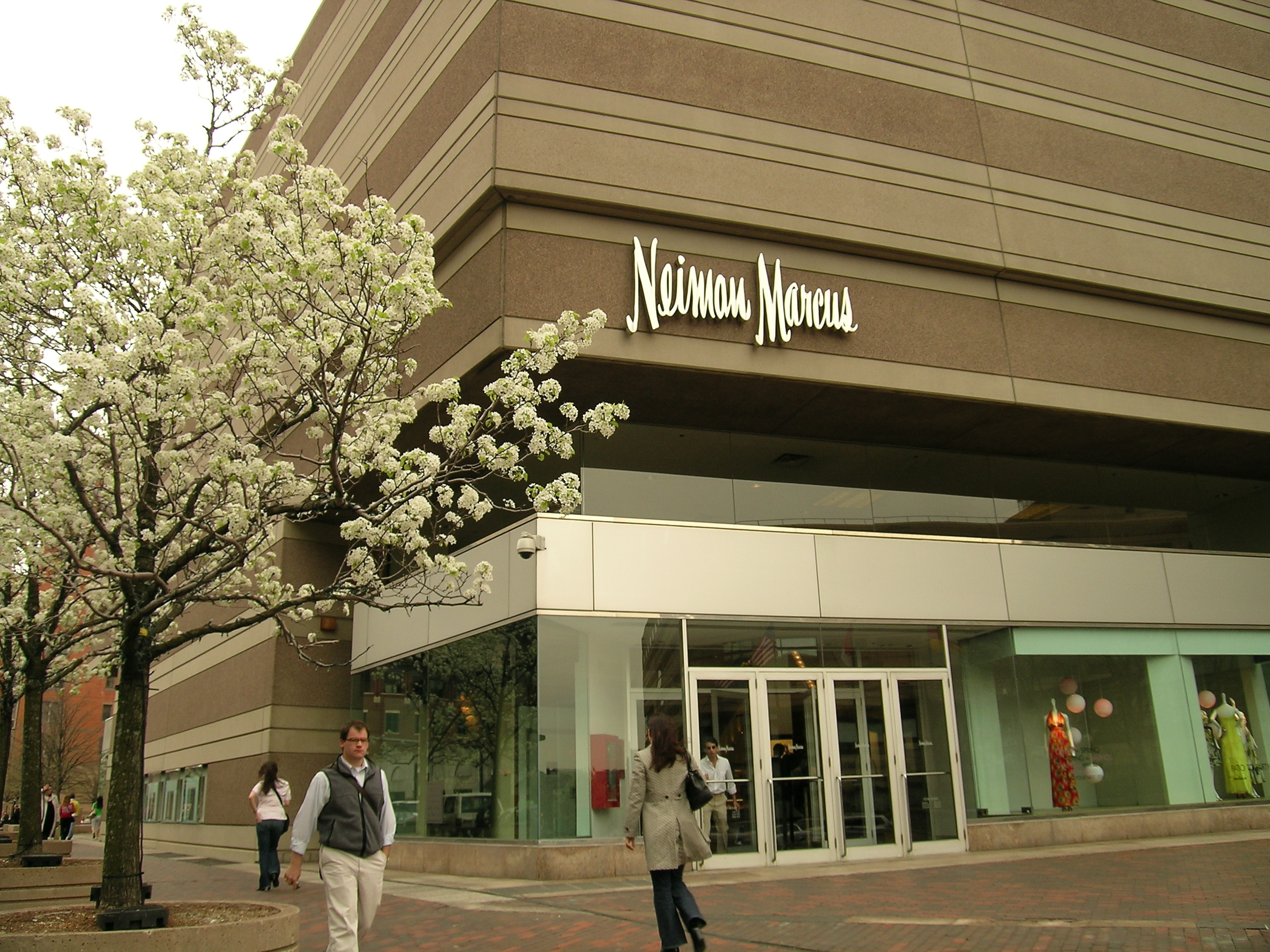 Neiman Marcus in Copley Square on a rainy day in Boston, Massachusetts. April 2008 photo by John Stephen Dwyer.